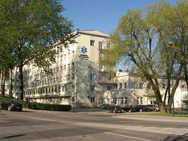 Hospital in Nowy Sącz, PL